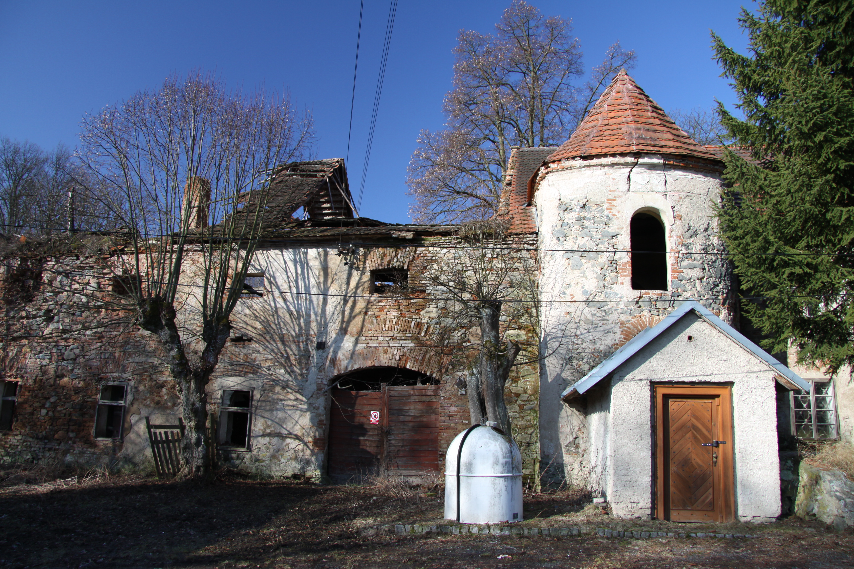 Rtišovice village, part of Milín village in Příbram District, Czech Republic.